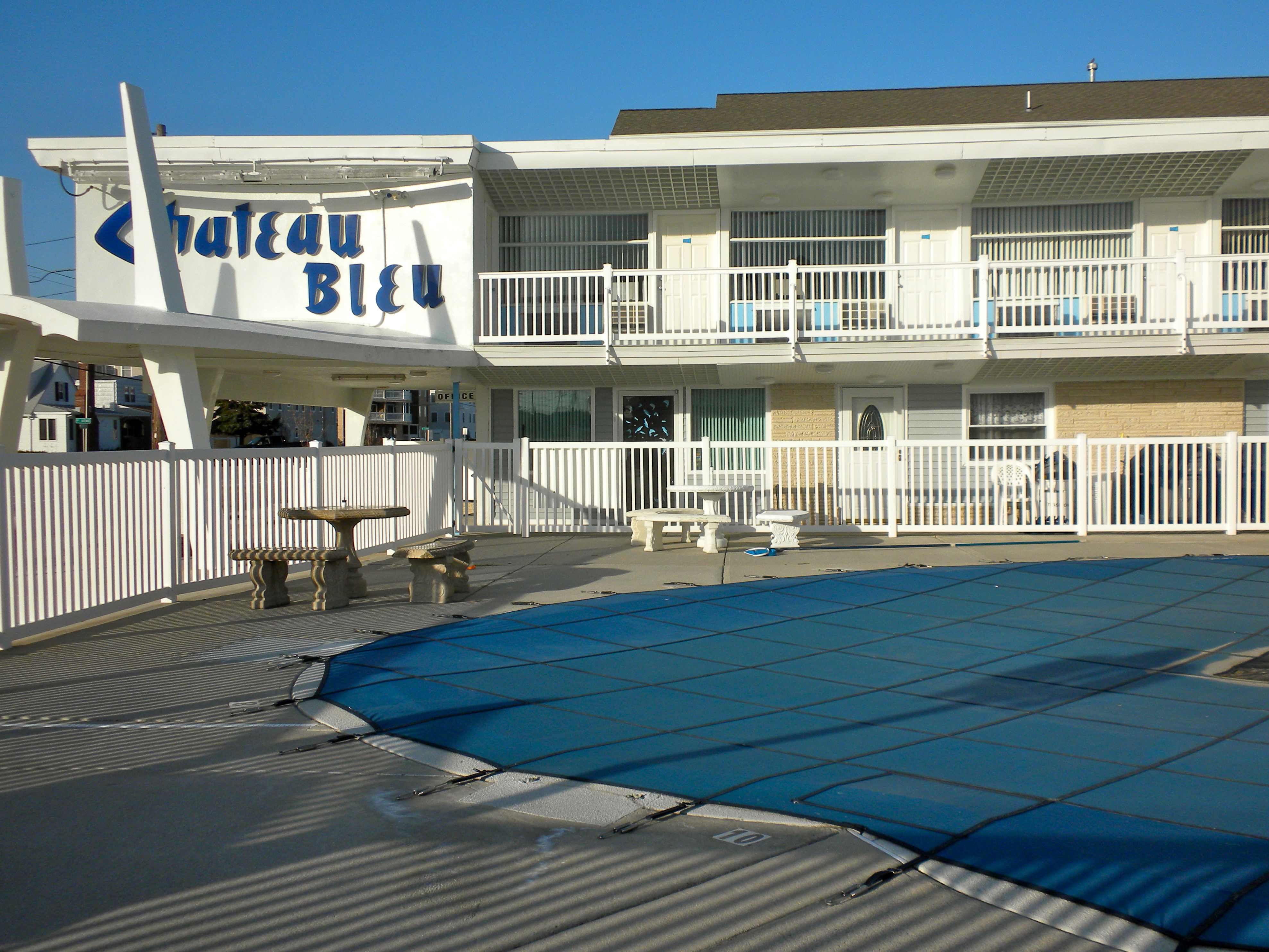 Chateau Bleu Motel on NRHP since March 25, 2004. At 911 Surf Ave., North Wildwood, New Jersey in Cape May County. In a distinctive modern style in a popular beach resort. See also "Caribbean Motel" for a nearby motel with a similar style.